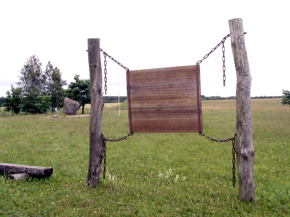 Field where Battle of Saule took place